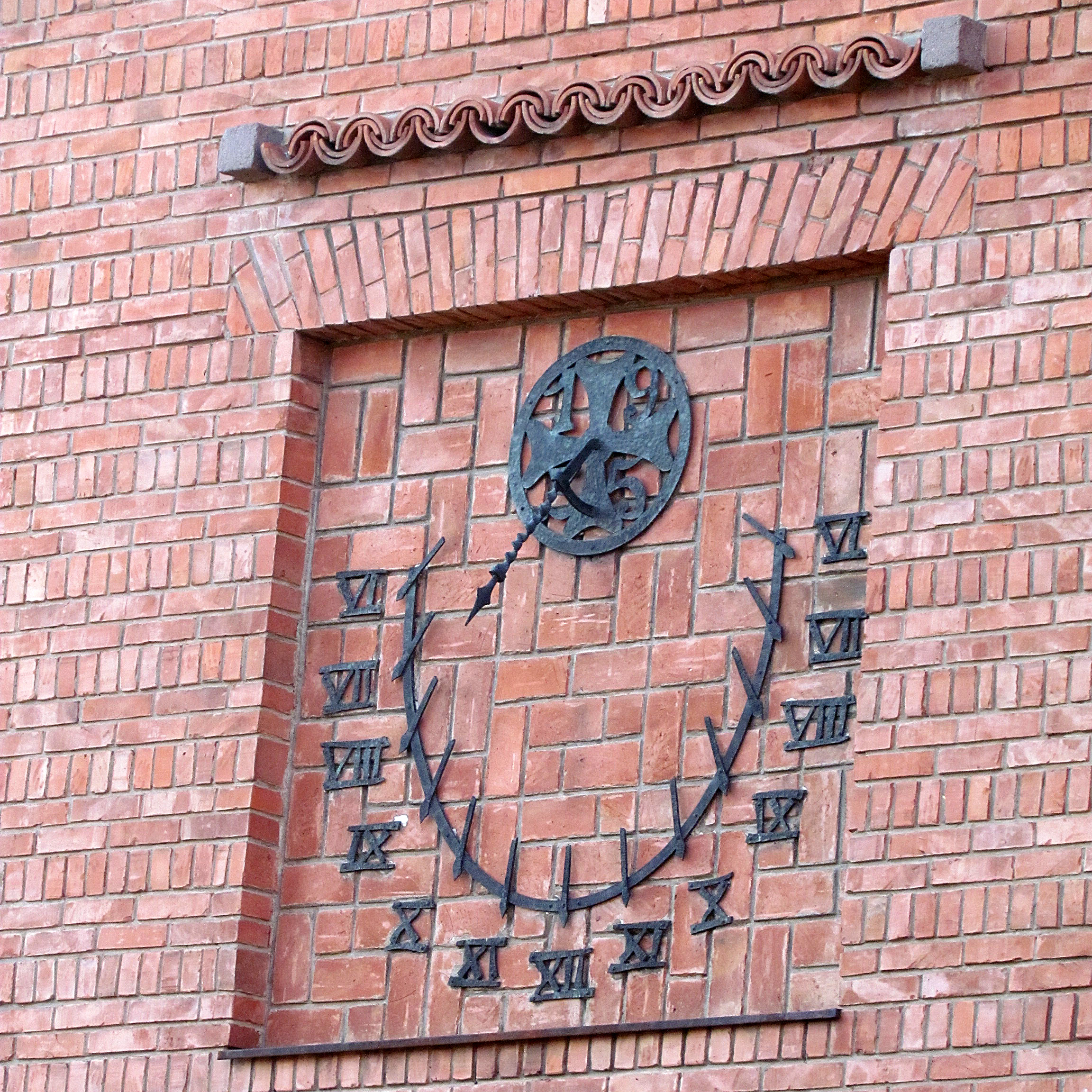 Sundial from Žiča monastery, Serbia